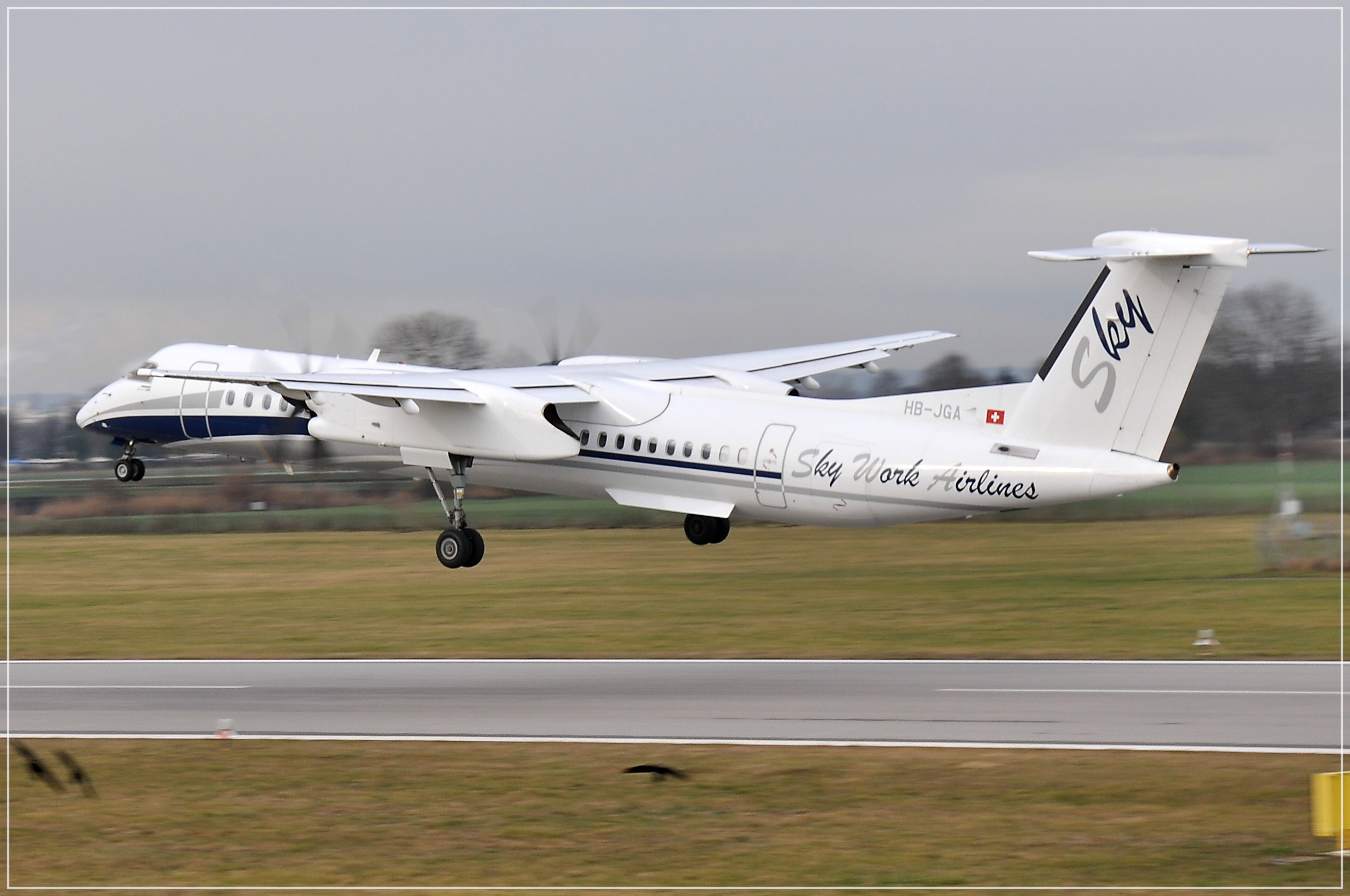 A Sky Work Airlines Dash 8-400 starting at City Airport Augsburg in Affing, Bavaria, Germany